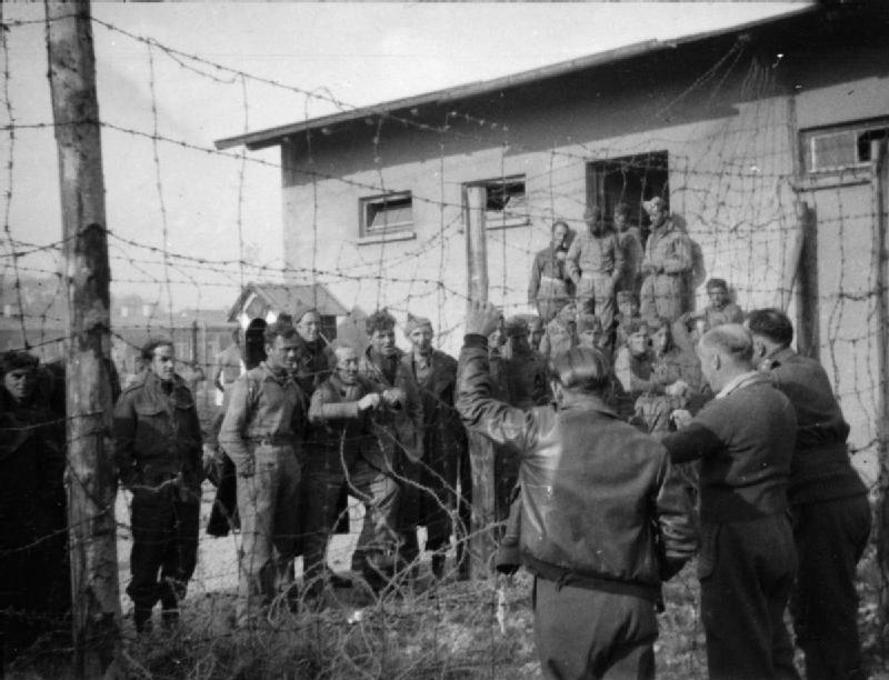 The British Army in North-west Europe 1944-45 A photograph taken covertly at Stalag VIIA at Mooseburg, showing British POWs talking to new inmates captured on the Greek island of Leros. Date unknown.